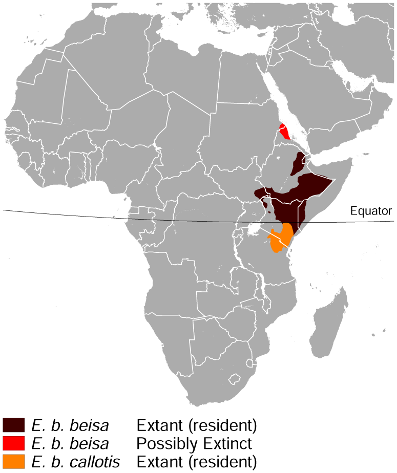 Geographical distribution of the East African oryx Oryx beisa. The map was created using the Generic Mapping Tools, GMT, version 5.1.2.